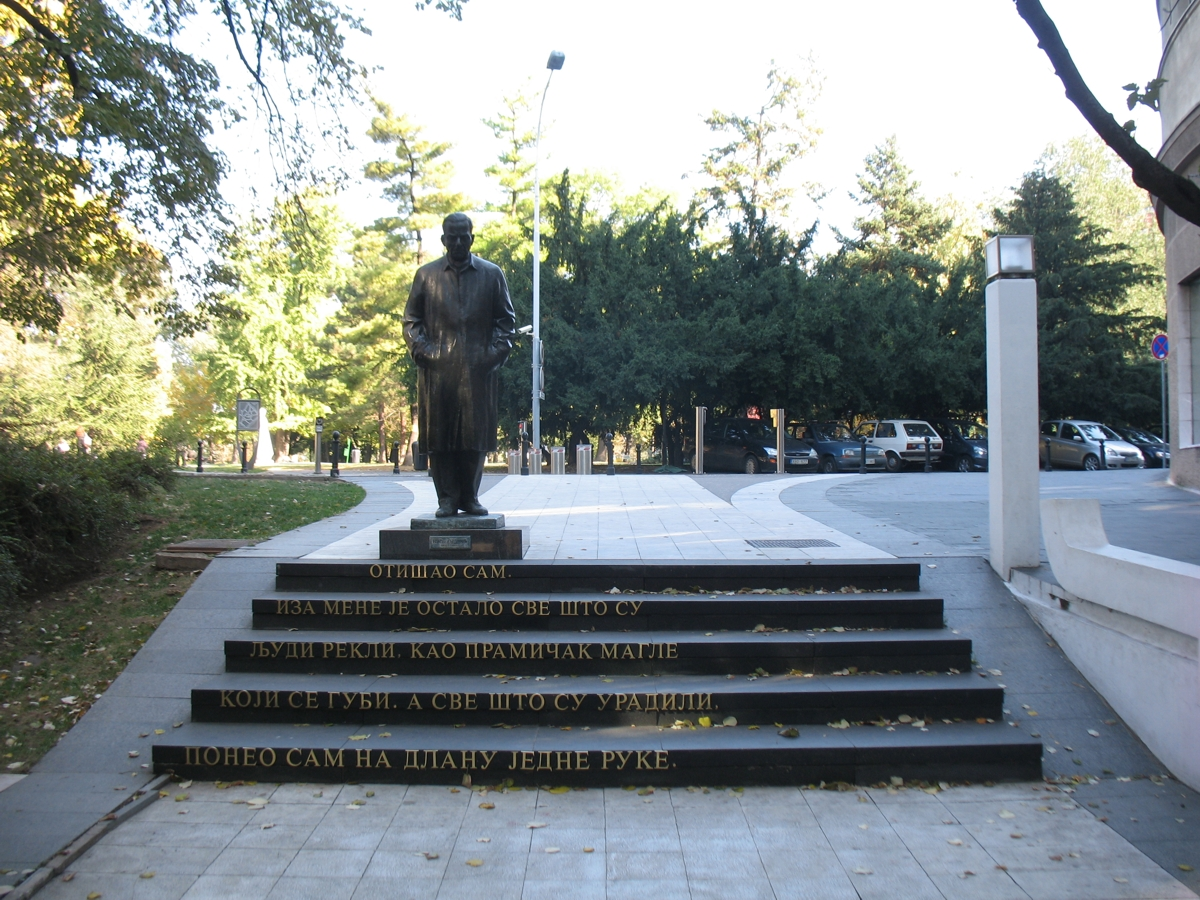 Monument to Ivo Andrić in Belgrade,with his quote on steps.